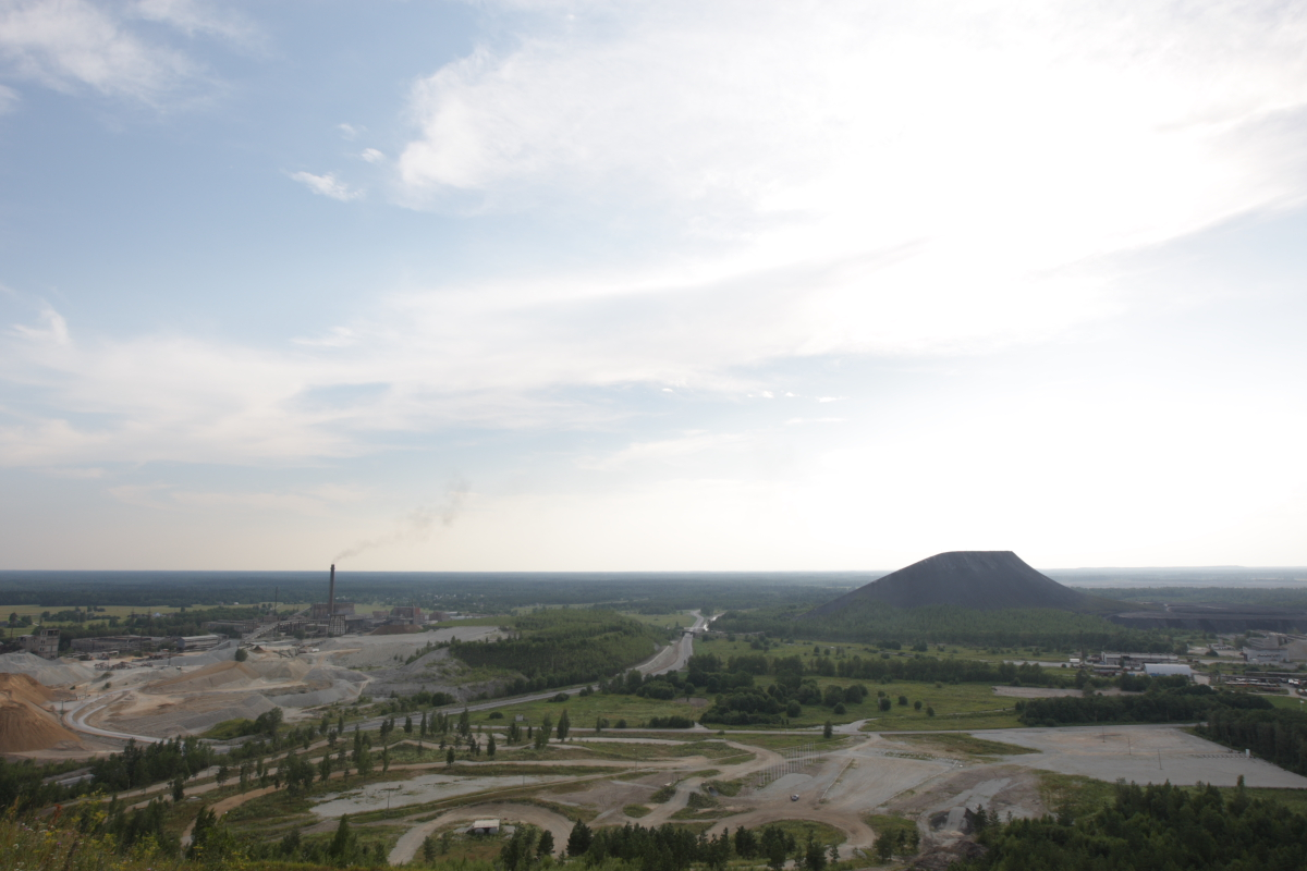 Kiviõli, Estonia